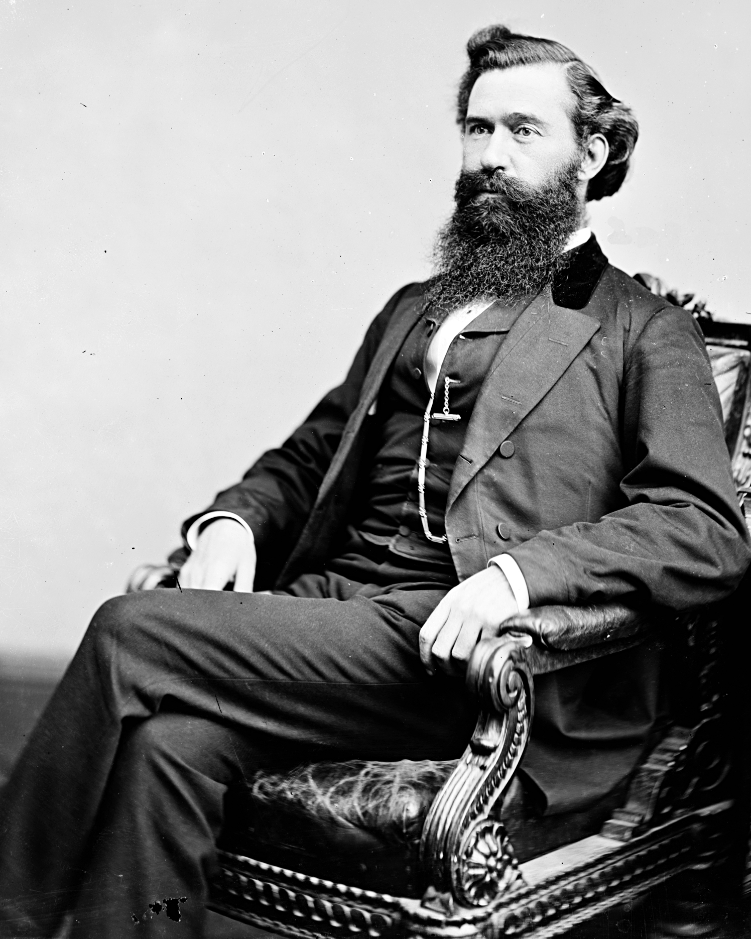 Jasper Packard, US Representative from Indiana